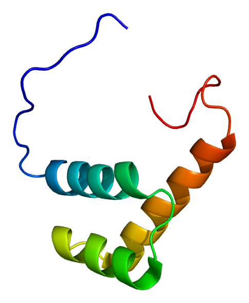 Structure of the ZEB2 protein. Based on PyMOL rendering of PDB 2da7.